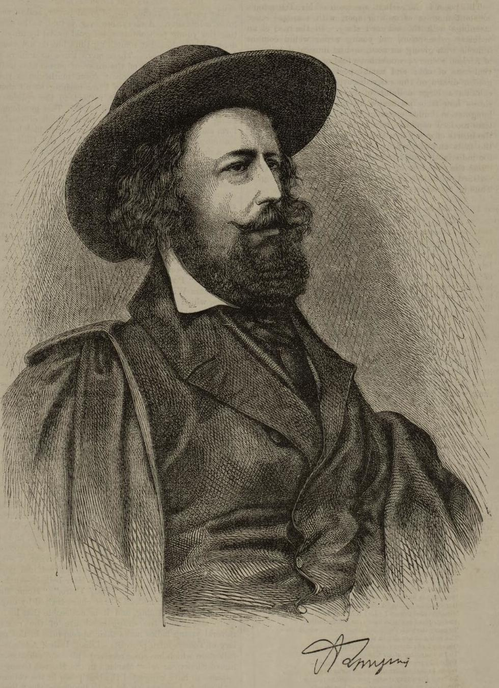 A portrait from the Welsh Portrait Collection at the National Library of Wales. Depicted person: Alfred, Lord Tennyson – British poet and Poet Laureate of Great Britain and Ireland (1809-1892)